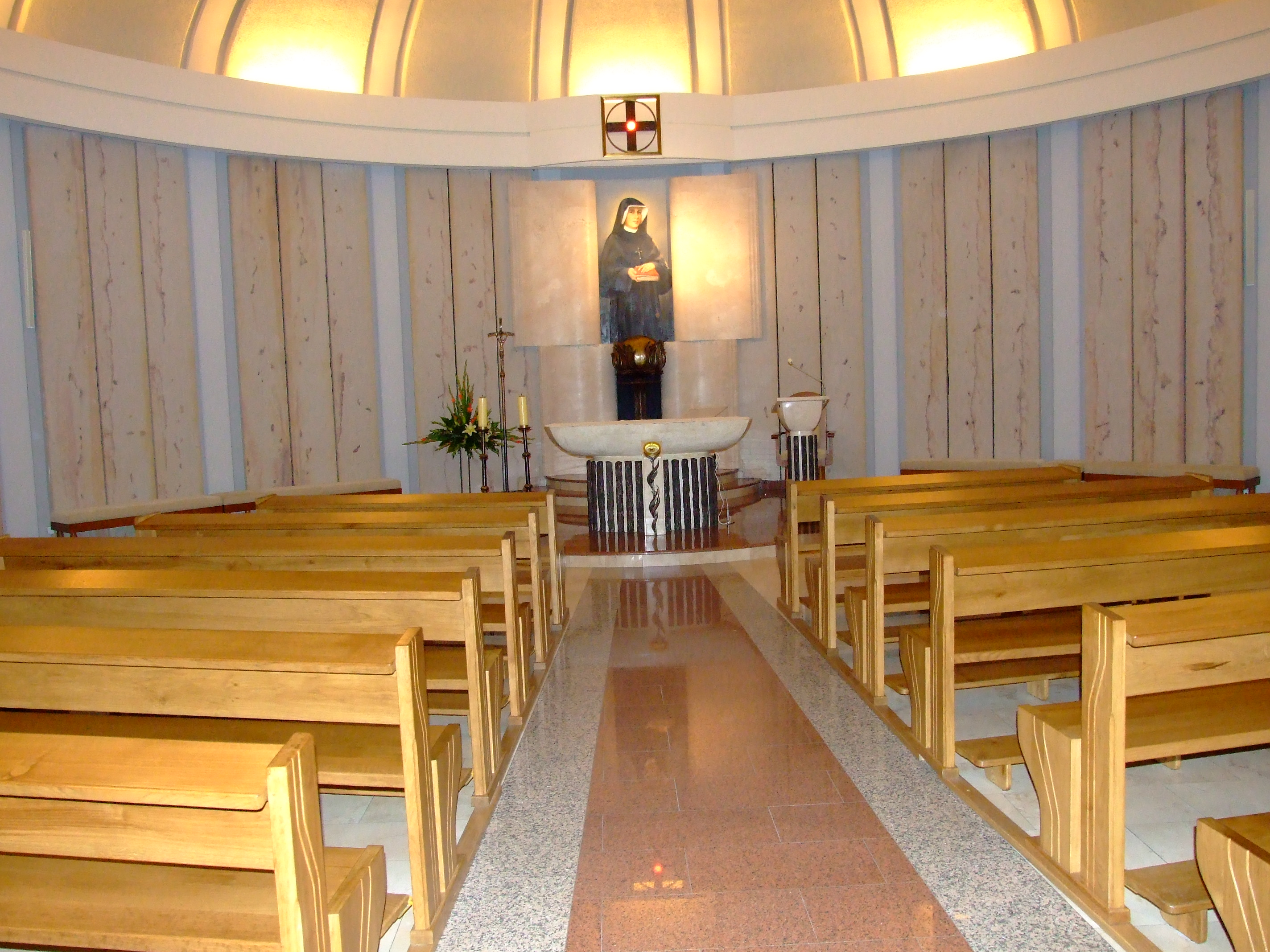 The Sanctuary of the Divine Mercy in Kraków-Łagiewniki (Poland)